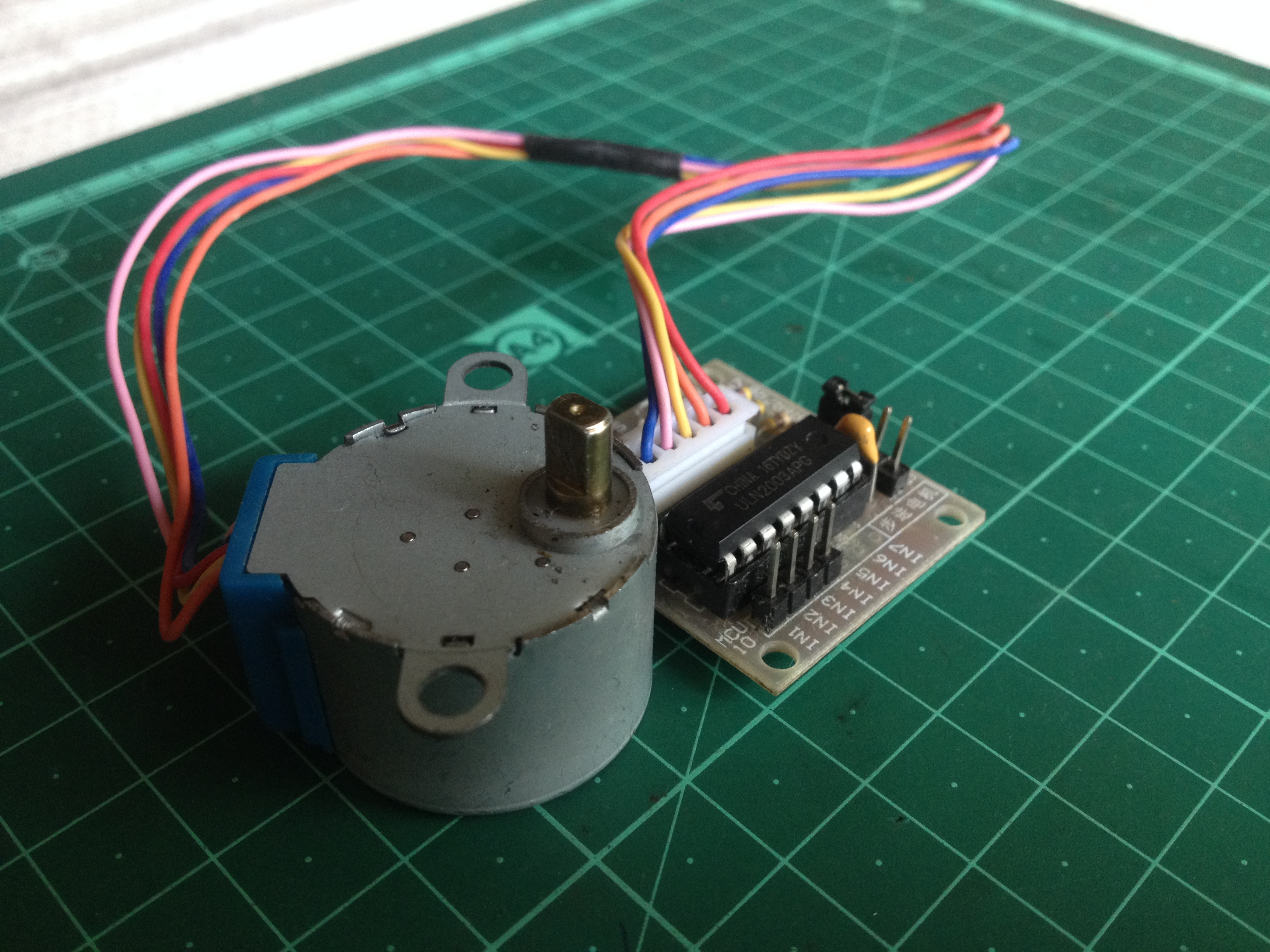 This is a 5-volt unipolar stepper motor which is among the most popular ones among the hobbyists. This stepper motor contains a reduction gear mechanism to increase the torque on the output. The motor is driven by a ULN2003 Darlington-transistor array-based driver.